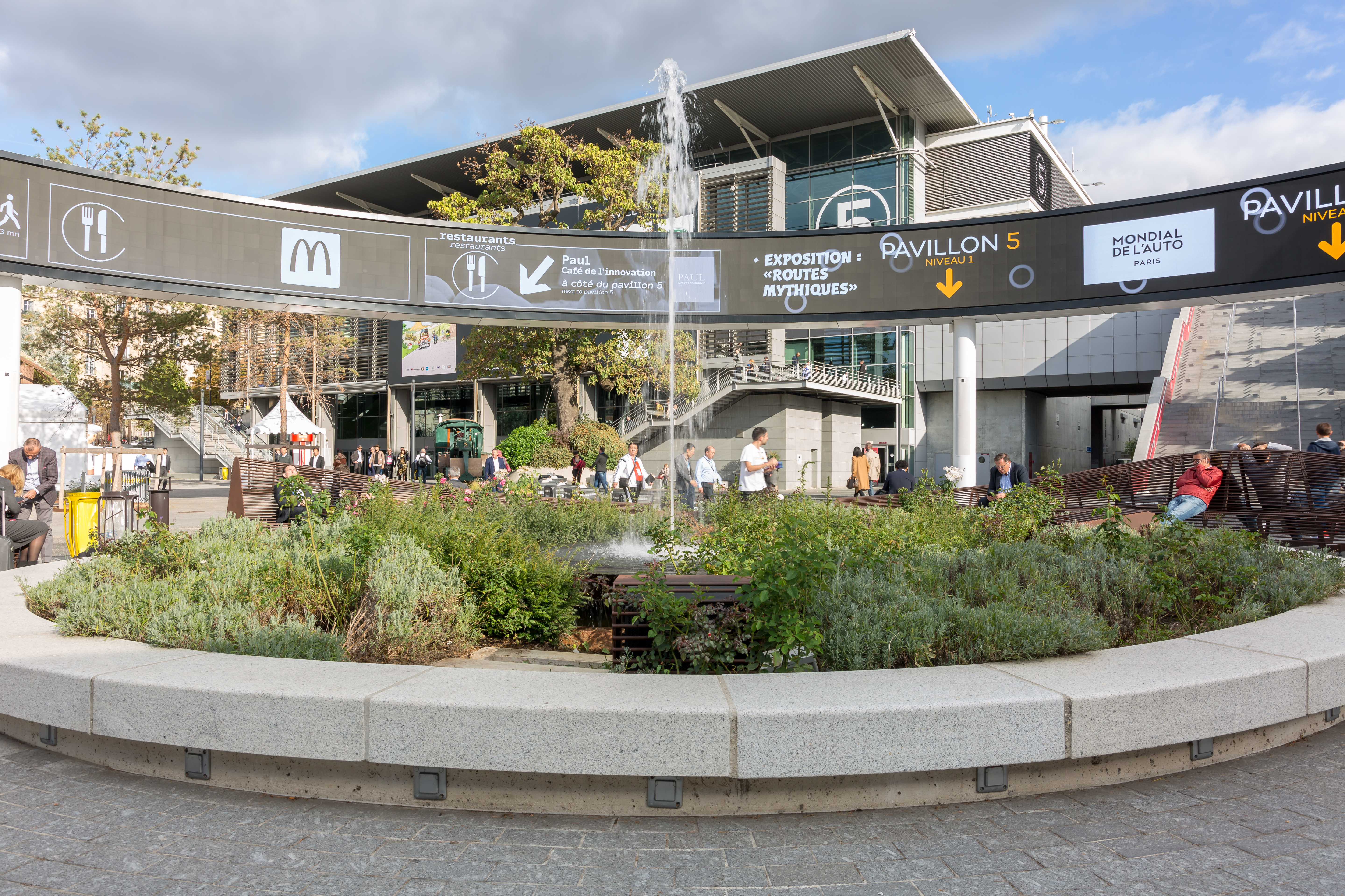 Fountain at the central square of Paris Expo Porte de Versailles